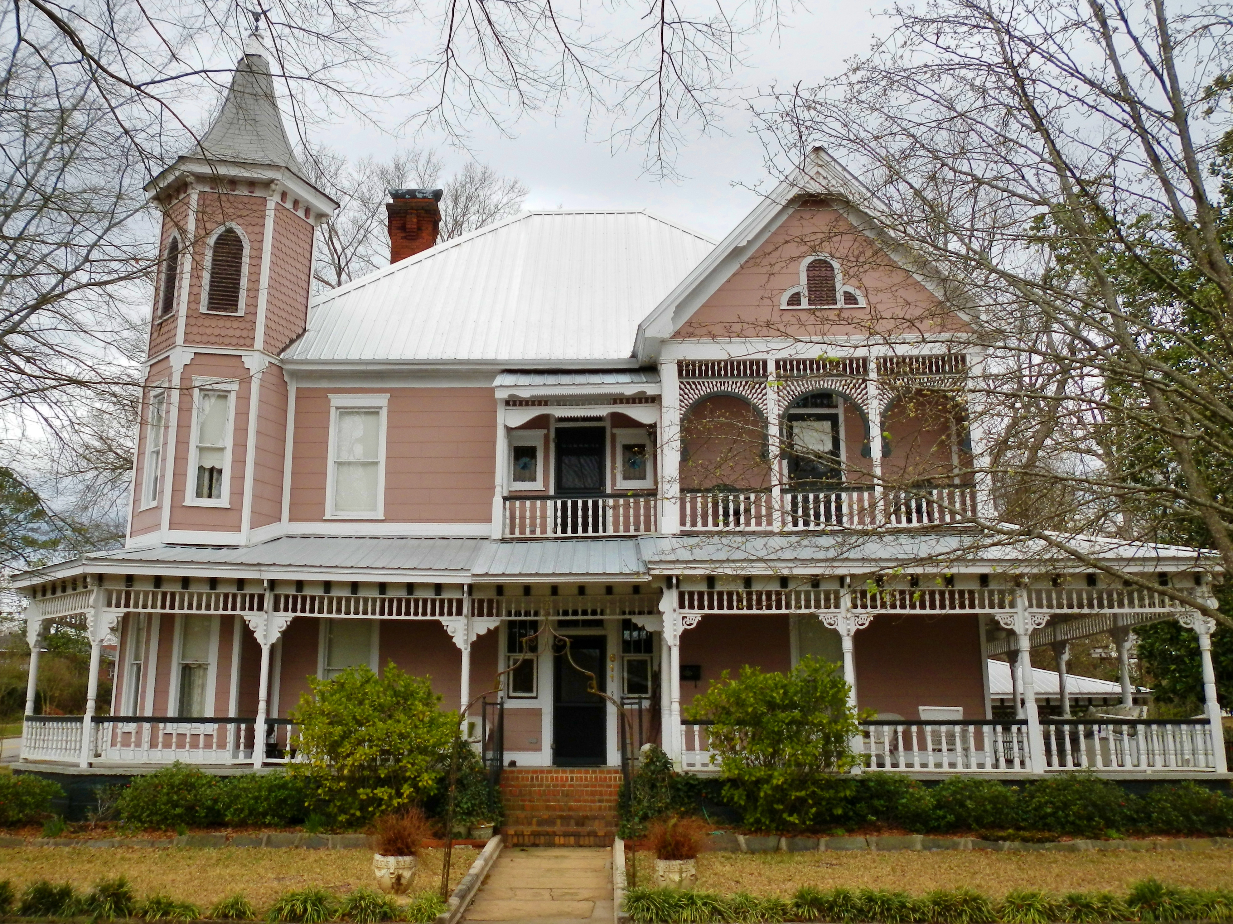 This is a photograph of the McKibbon House in Montevallo, Alabama. It was added to the National Register of Historic Places on December 31, 2001.